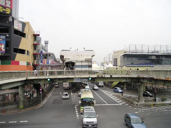 Suminoekōen Station